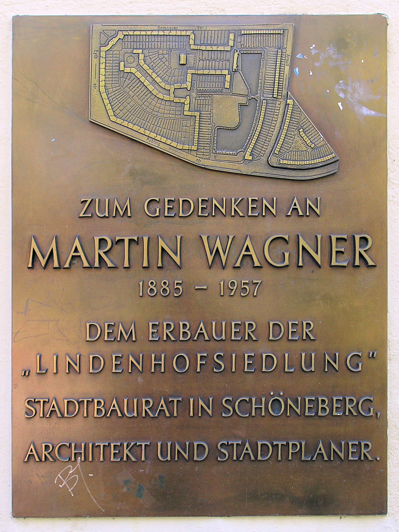 Memorial plaque, Martin Wagner, Röblingstraße 29, Berlin-Schöneberg, Germany